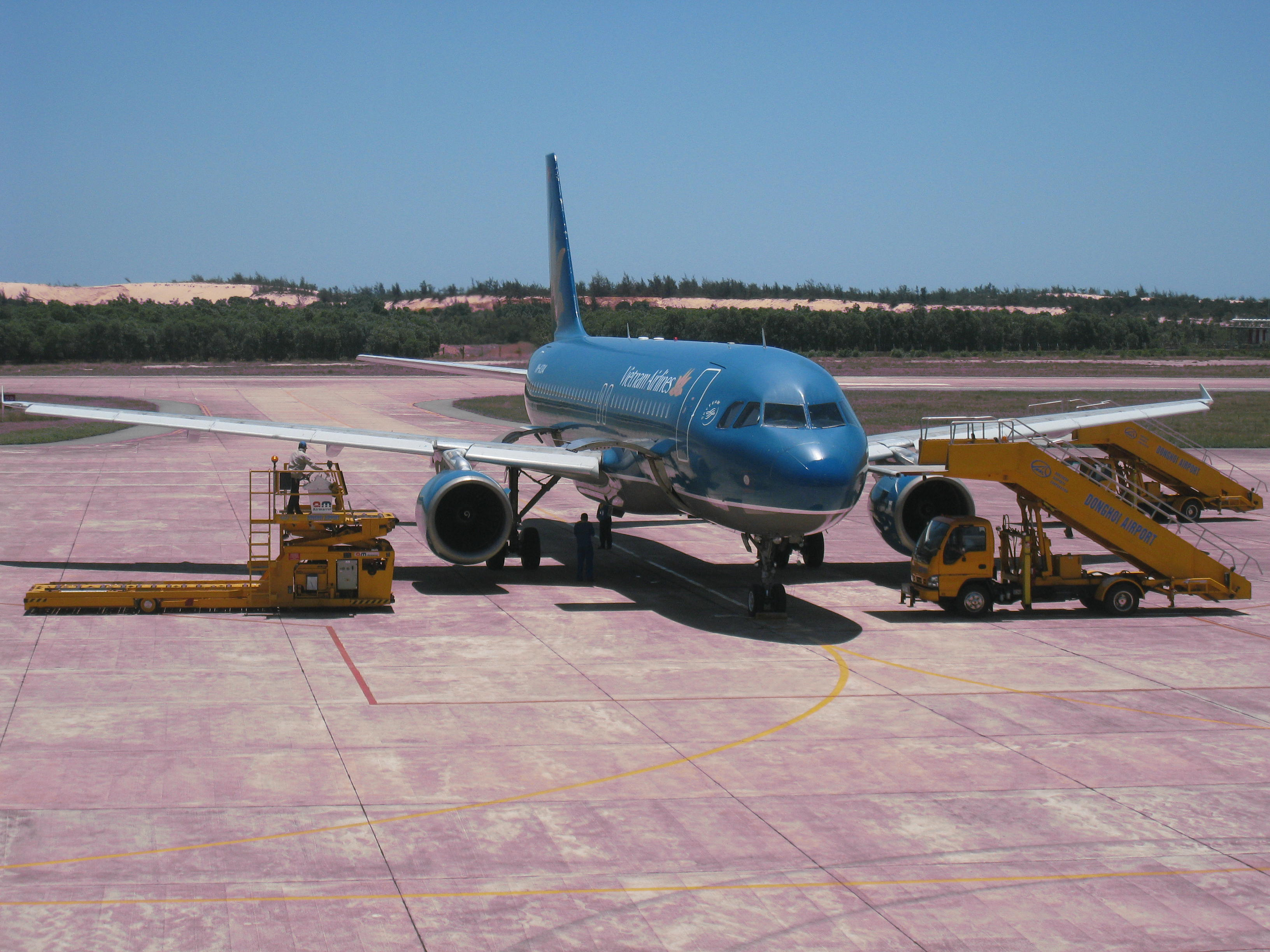 An Airbus A320 in Vietnam Airlines' livery at Dong Hoi Airport